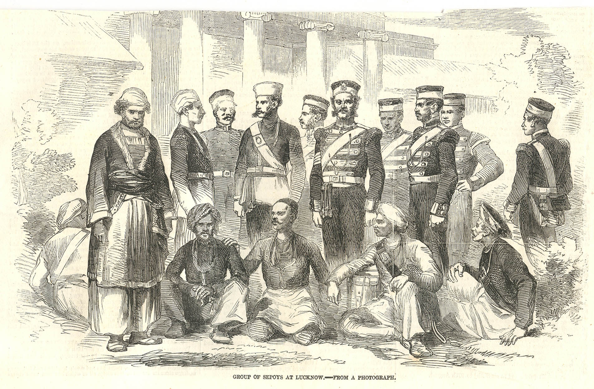 "Group of sepoys at Lucknow--from a photograph," from the Illustrated London News, Oct. 1857